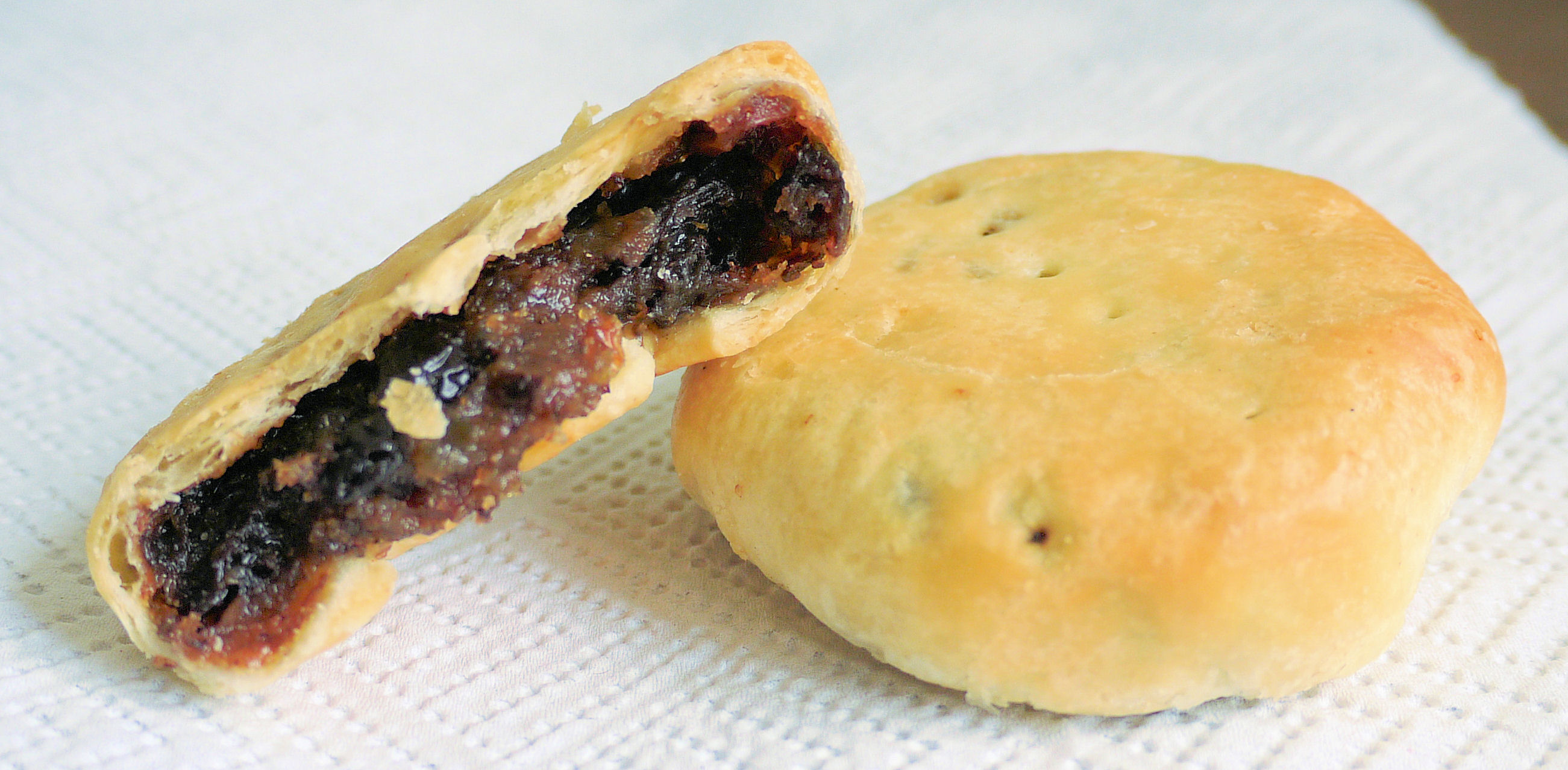 Commercially produced Eccles cakes.